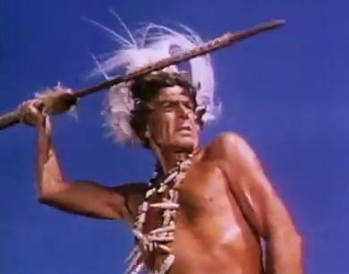 Friedrich von Ledebur in Enchanted Island - trailer (cropped screenshot)